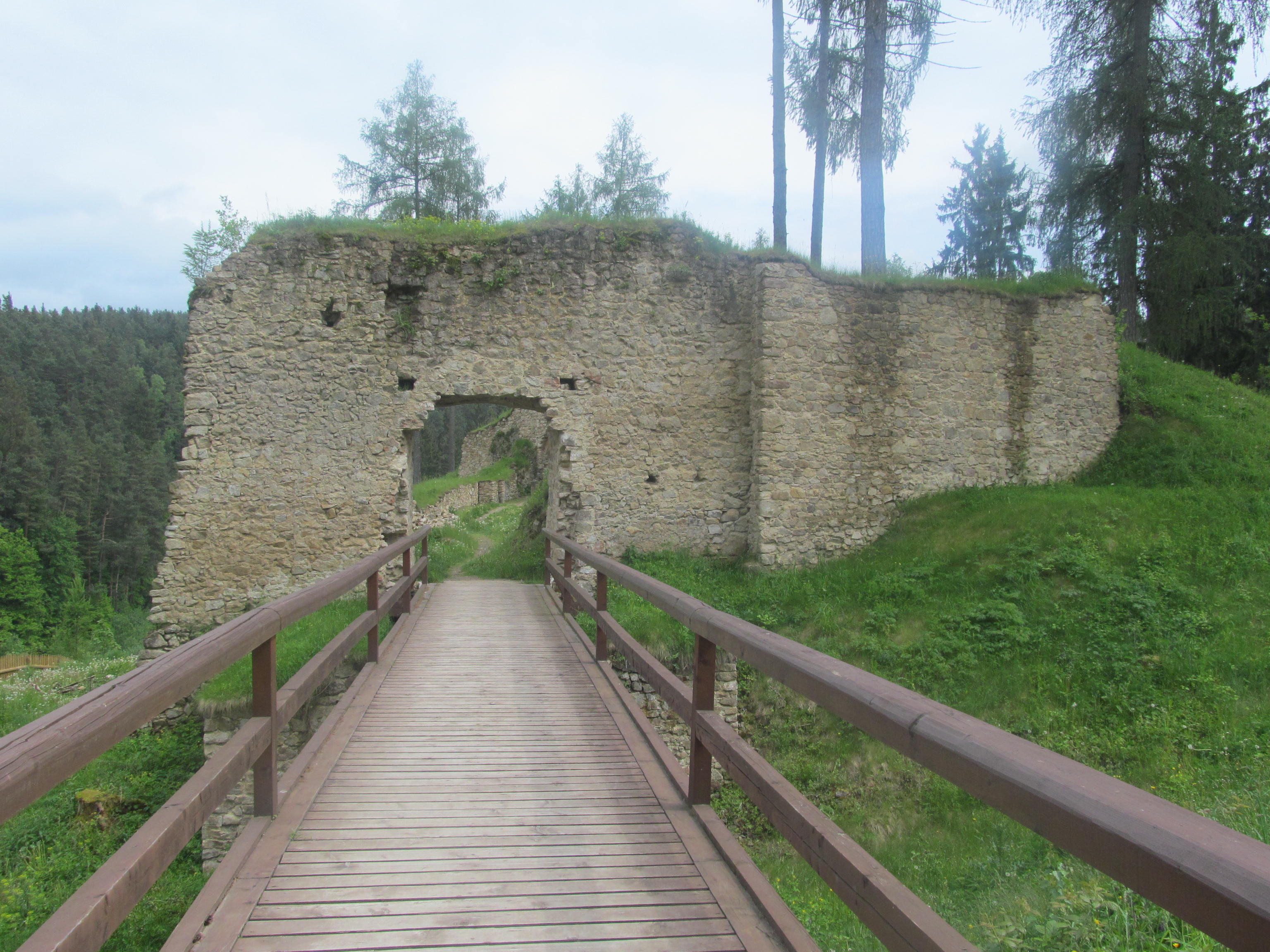 Pořešín Castle_2nd Gate